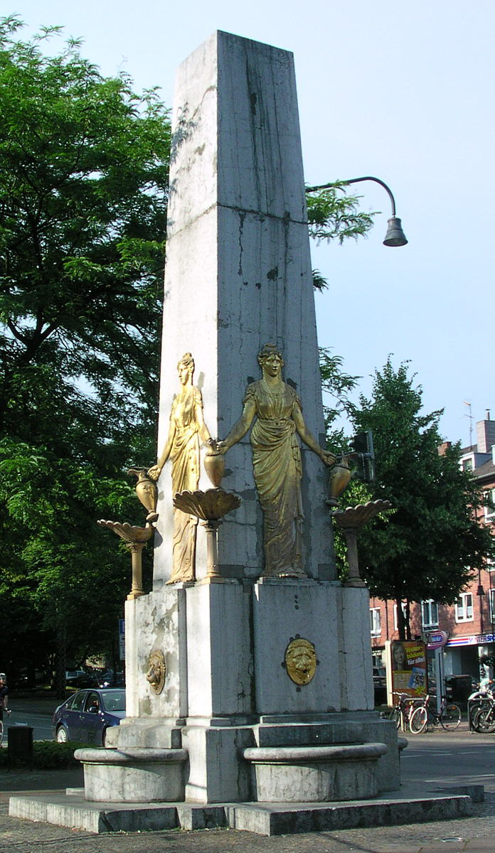 Aachen, Monument of four virgins